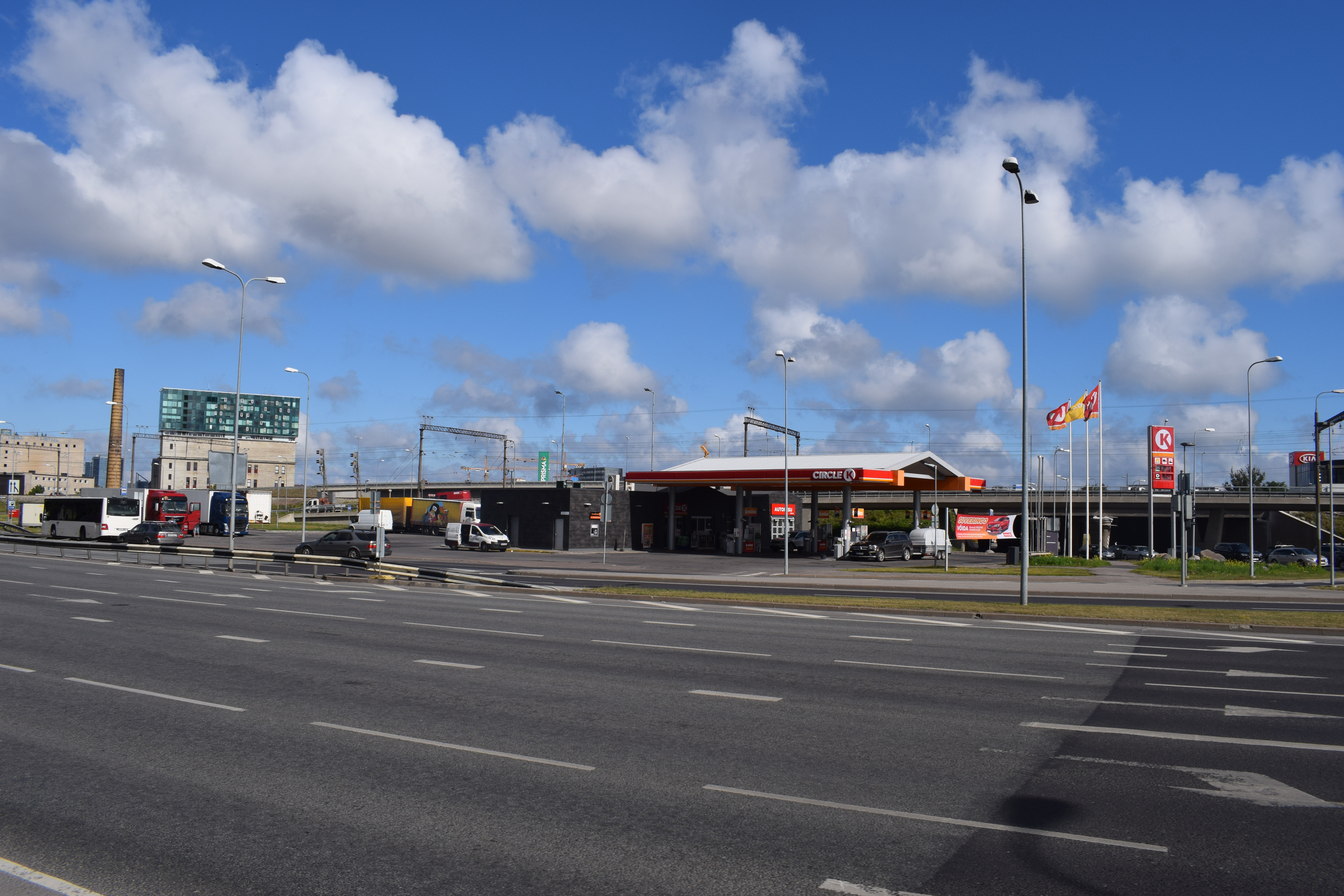 Circle K Järvevana